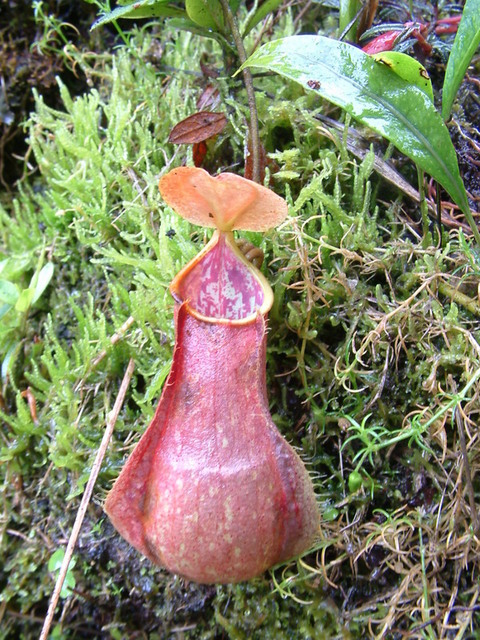 Nepenthes papuana from Western New Guinea (~1300 m asl)